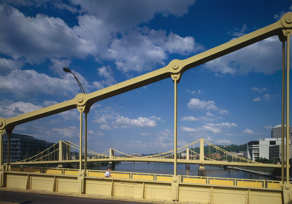 Jet Lowe, photographer, summer 1999. PA-490-A-16 (CT) SUSPENDER DETAIL, LOOKING NE WITH OTHER TWO SISTERS IN BACKGROUND.